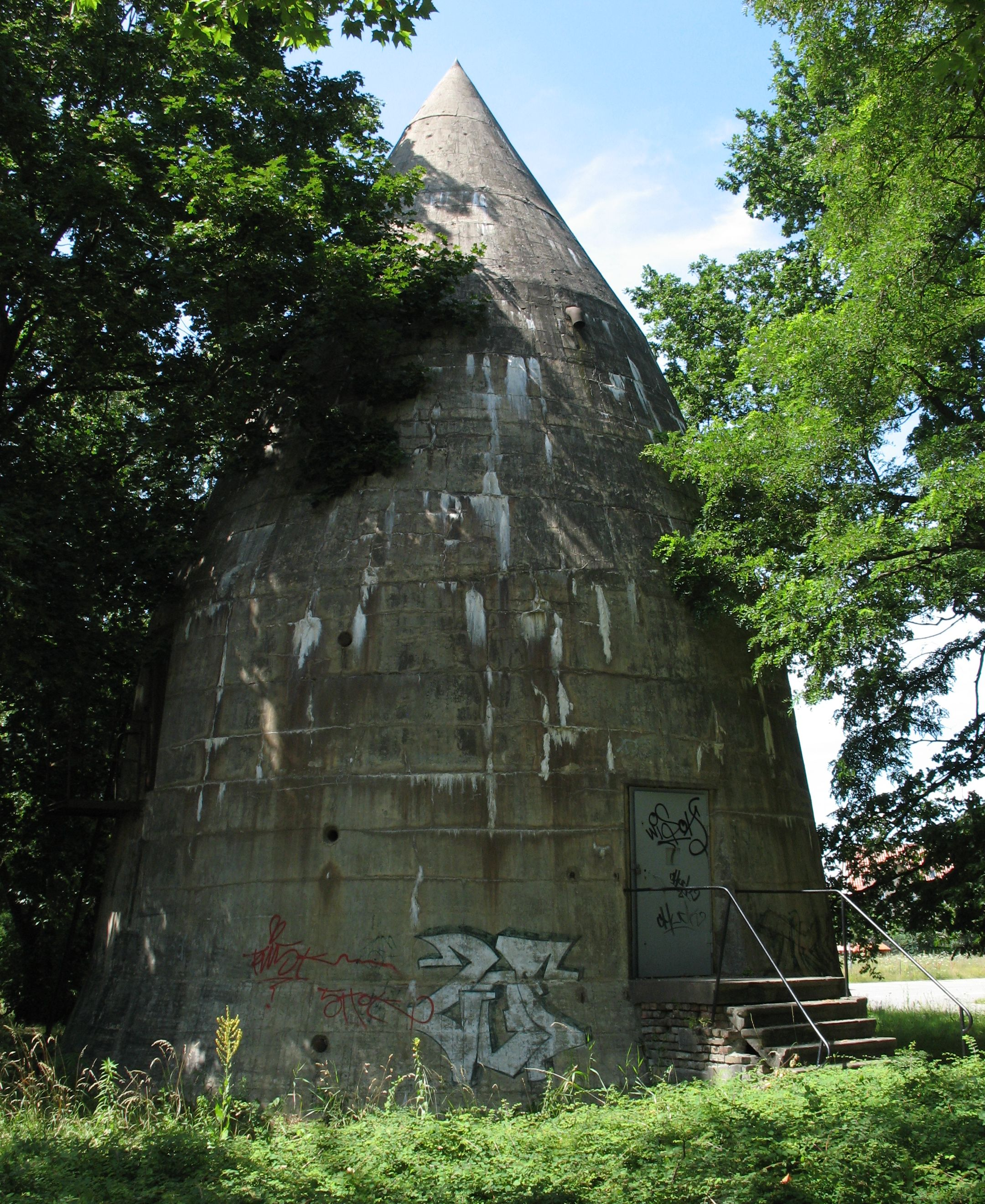 Bunker in Brandenburg an der Havel in Brandenburg, Germany